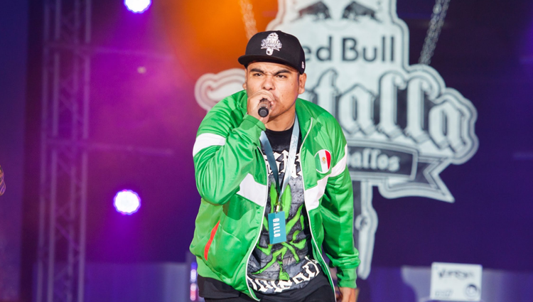 Aczino rapeando en Barcelona contra Invert, Red Bull Mundial, España, 2014.